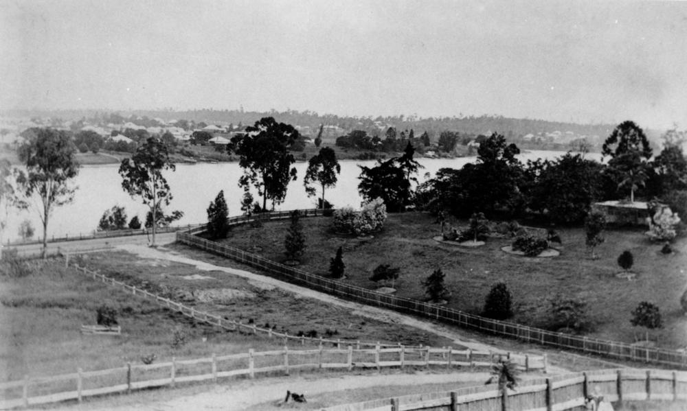 Dunmore Terrace and Chasely Street in Auchenflower, Brisbane, ca. 1910 Looking southward across the Brisbane River from Auchenflower across Chasely Street to West End around 1910. Part of a panorama with negative numbers with 183970 and 183967.